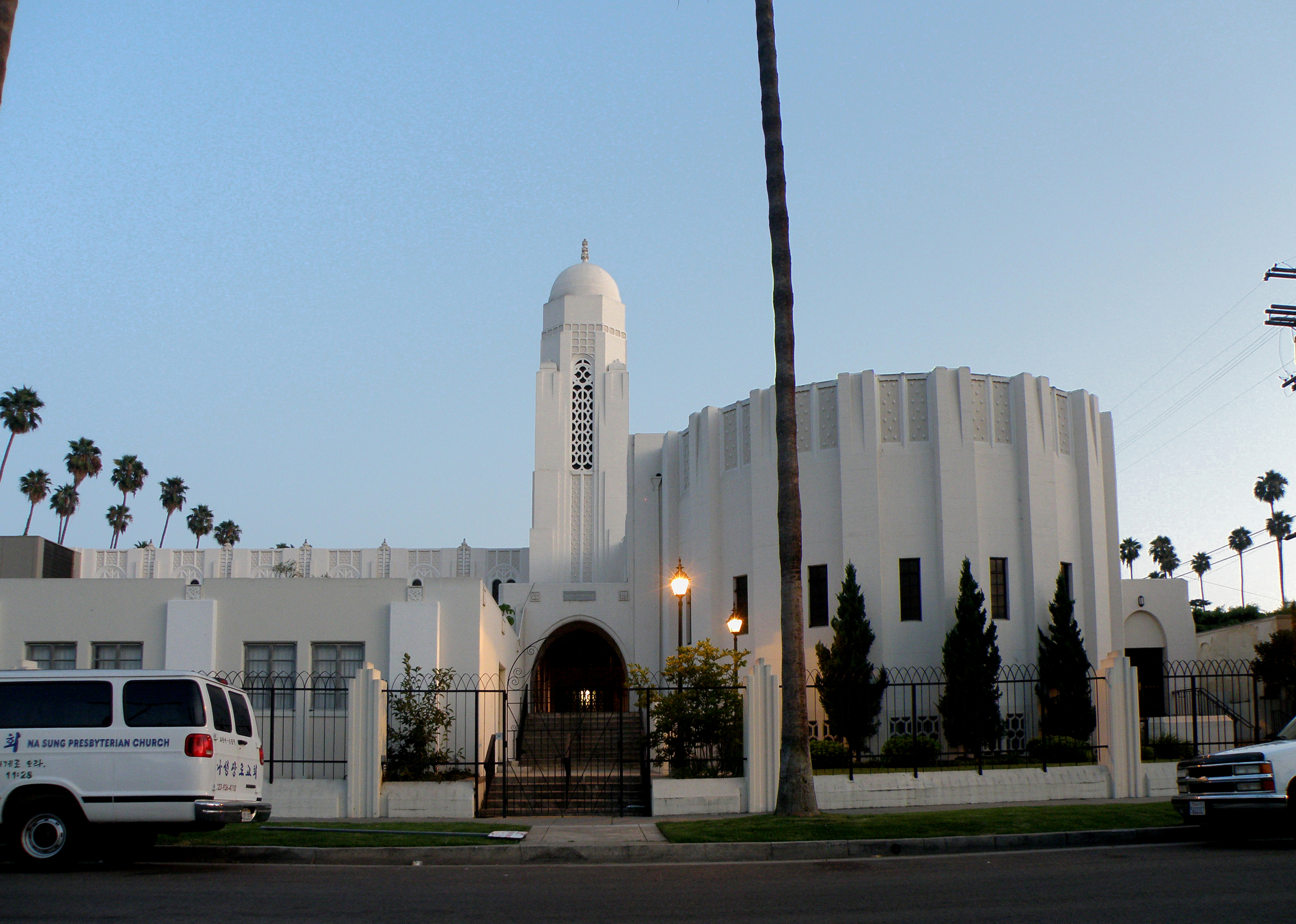 Built in 1929 for members of The Church of Jesus Christ of Latter-day Saints (Mormons). Oldest LDS meetinghouse in LA. Originally known as the Hollywood Stake Tabernacle.